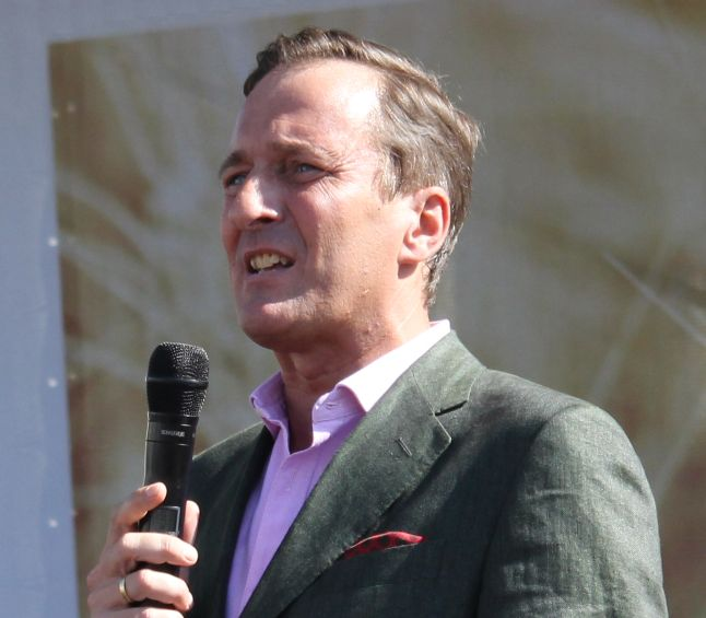 The Austrian politician Manfred Juraczka in 2012